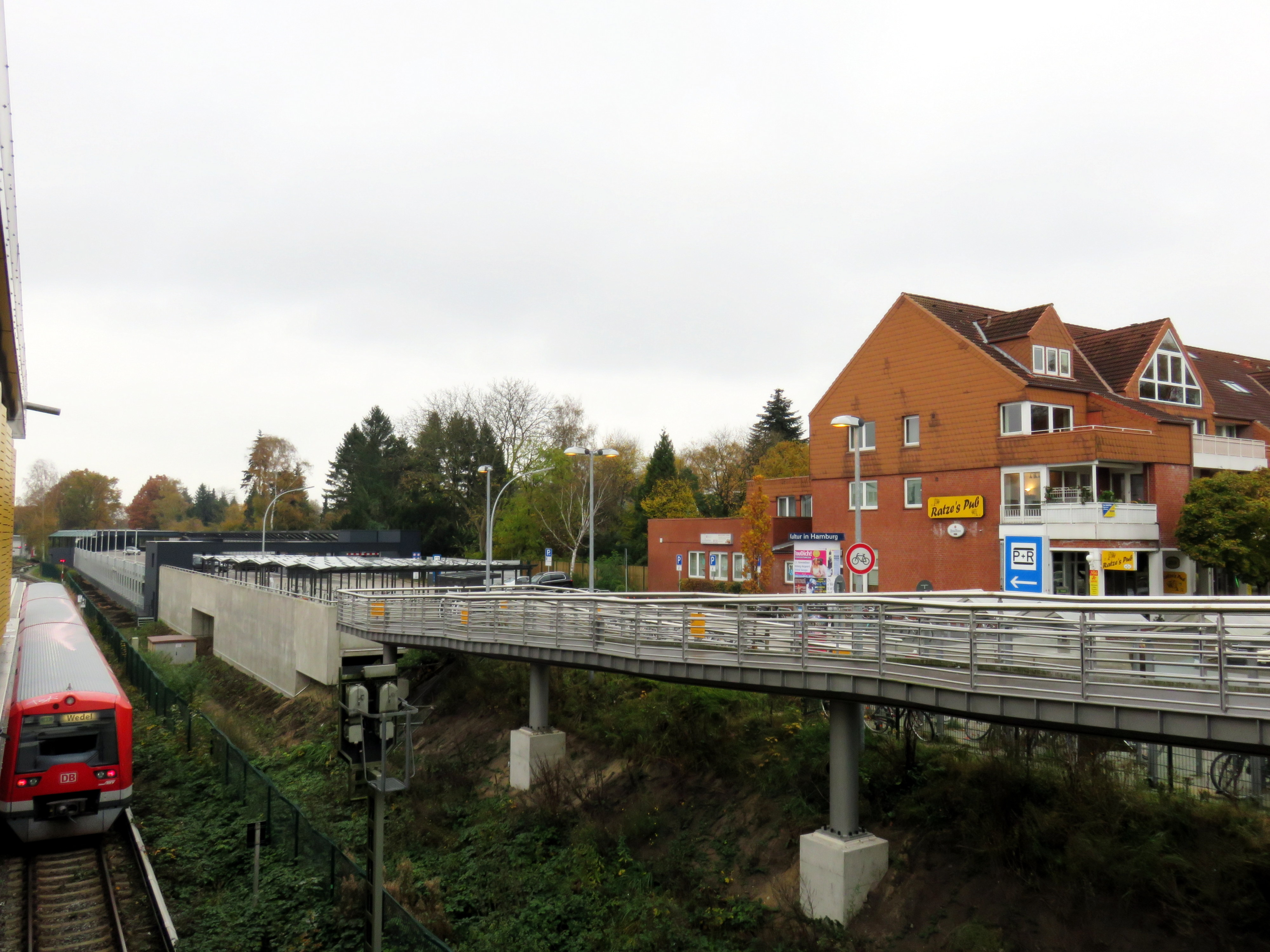 The new Park-and-ride system with Park-and-bike-system at S-Bahn (suburban train) station (chargeable), Hamburg-Poppenbüttel.